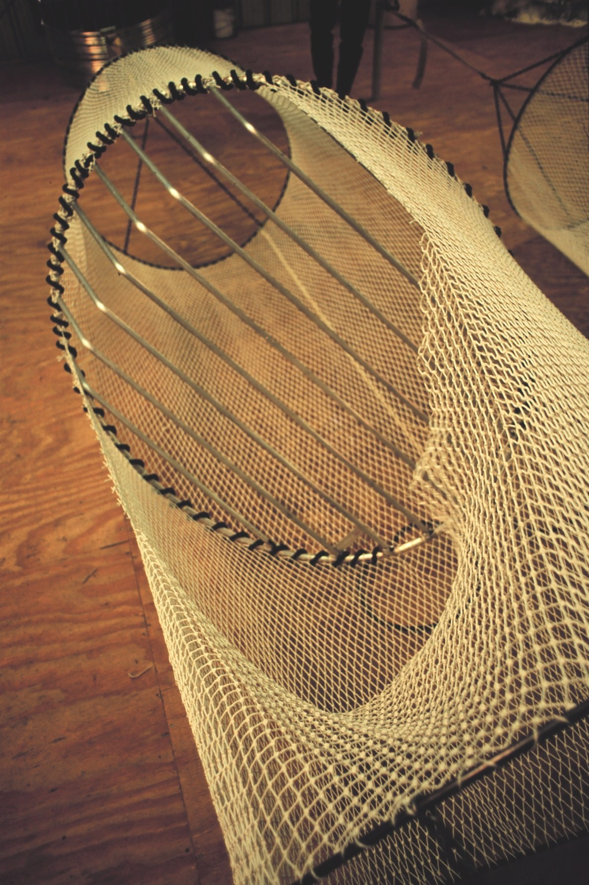 Turtle excluder device (TED) manufactured by Saunders Marine Machine Shop (Mississippi, Biloxi). The oval metal ring and bars deflect the turtles. The cut in the netting is where the trap door will be placed. The bars force a turtle to the trap door which will open allowing the turtle to go free.